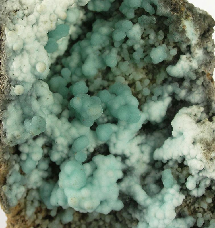 Gibbsite Locality: Xianghualing Mine (Hsianghualing Mine), Xianghualing Sn-polymetallic ore field, Linwu County, Chenzhou Prefecture, Hunan Province, China (Locality at ) Size: small cabinet, 8.8 x 4.8 x 2.9 cm Gibbsite Pastel, greenish-blue botryoids of gibbsite, to .3 cm across, are nestled in a vug. A very 3-dimensional piece with unusual color gradation to a pastel powder-blue in some places. Tim Blackwood Collection.